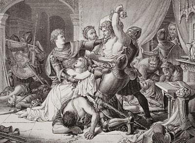 “Fair son, have pity on the gentle Mortimer.” In this 19th century image Isabella pleads with her son for Mortimer’s life.